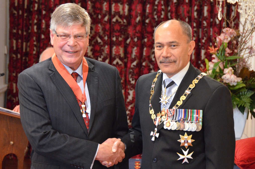 Warren Tucker (left), after his investiture as CNZM, for services to the State, by the governor-general, Sir Jerry Mateparae, on 11 September 2014